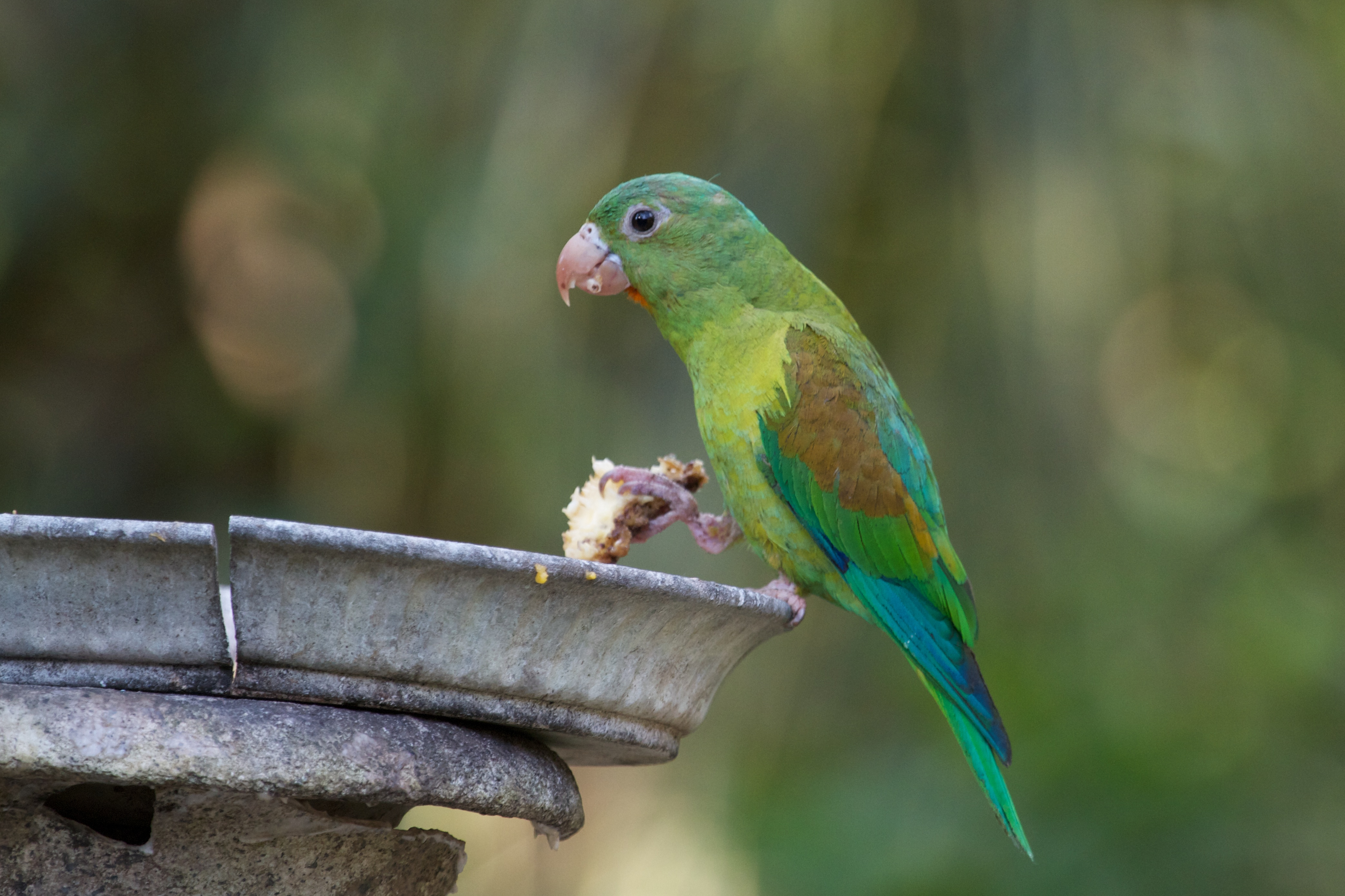 An Orange-chinned Parakeet feeding in Panama.